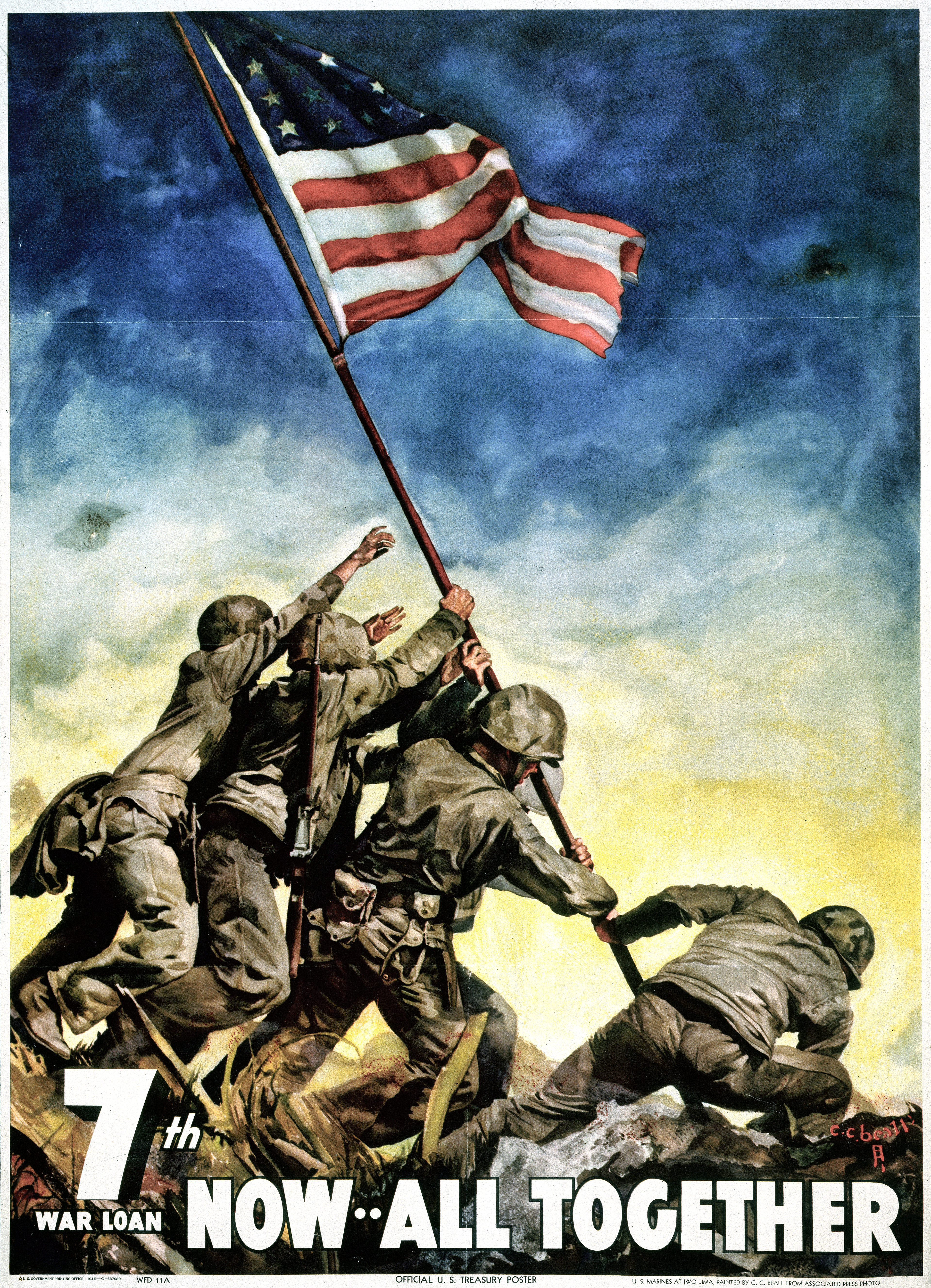 Poster for the Seventh War Loan Drive (May 14–June 30, 1945)